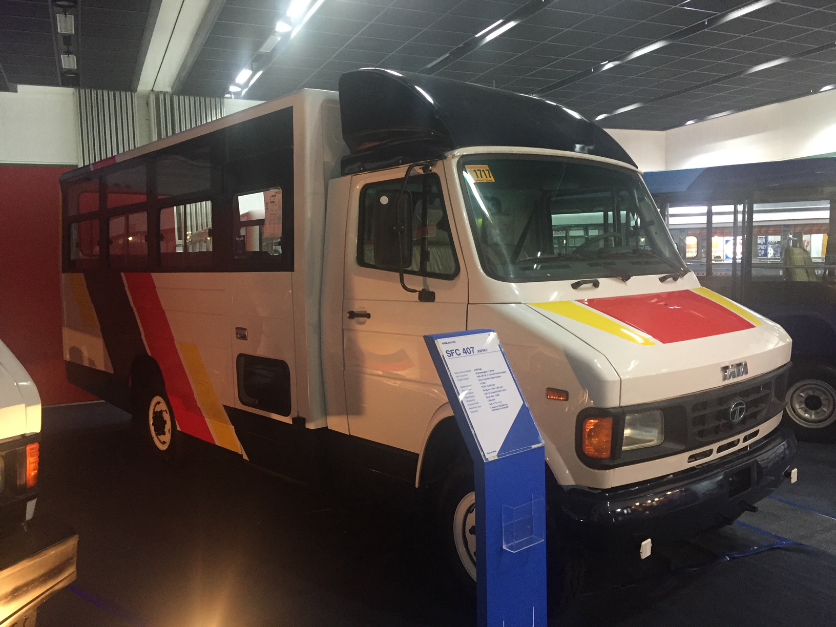 Prototype Tata Modern Jeepney at the Department of Transportation's PUV Modernization Exhibition at Philippine Convention Center (PICC) Forum in Pasay City.